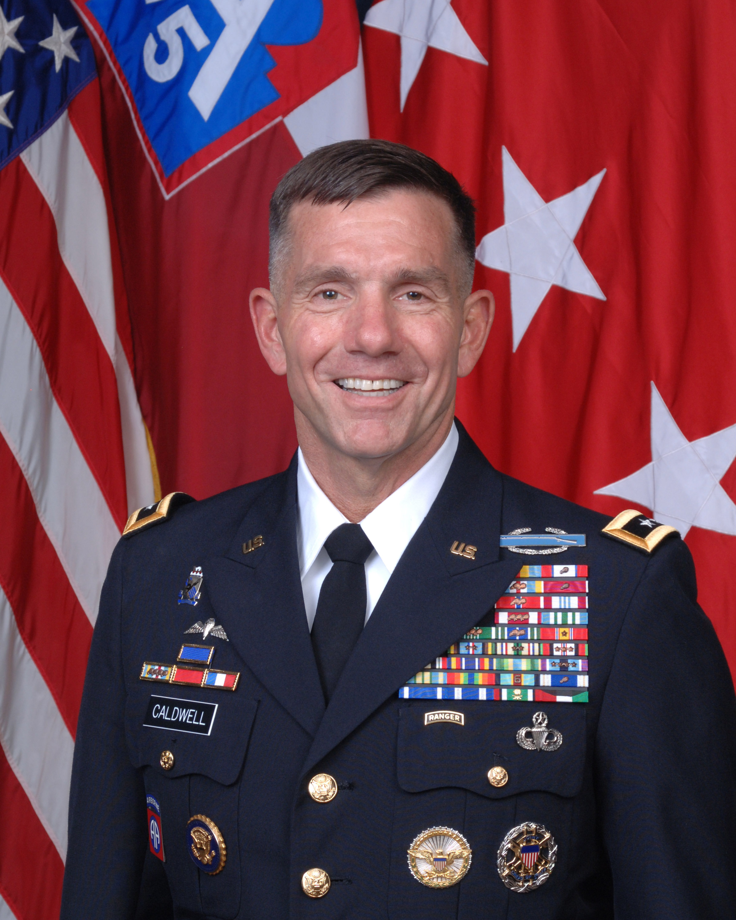 LTG William B. Caldwell, IV, current Commander of U.S. Army North (Fifth Army) and Senior Mission Commander of Fort Sam Houston.